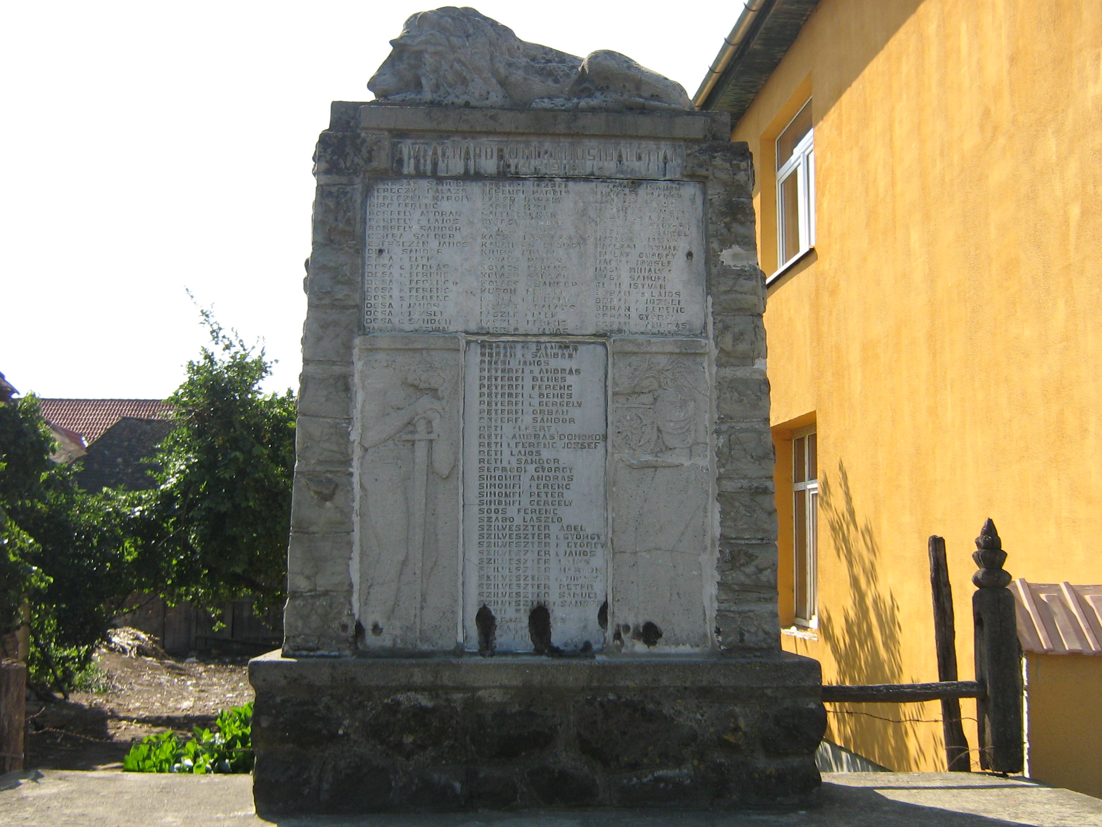 Monument in Chibed (Romania)